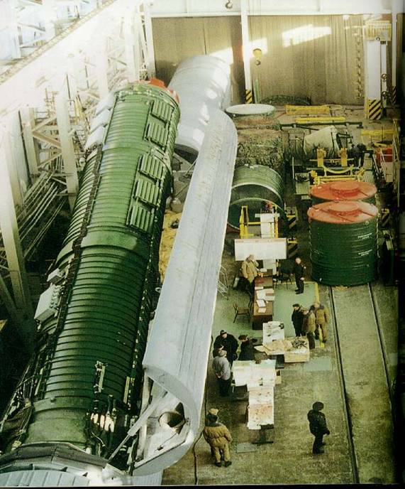 SS-24 Removal of SS-24 ICBM from Rail-mobil Launcher at Bershet